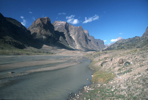 Looking down the valley at Mount Odin, the highest mountain on Baffin Island